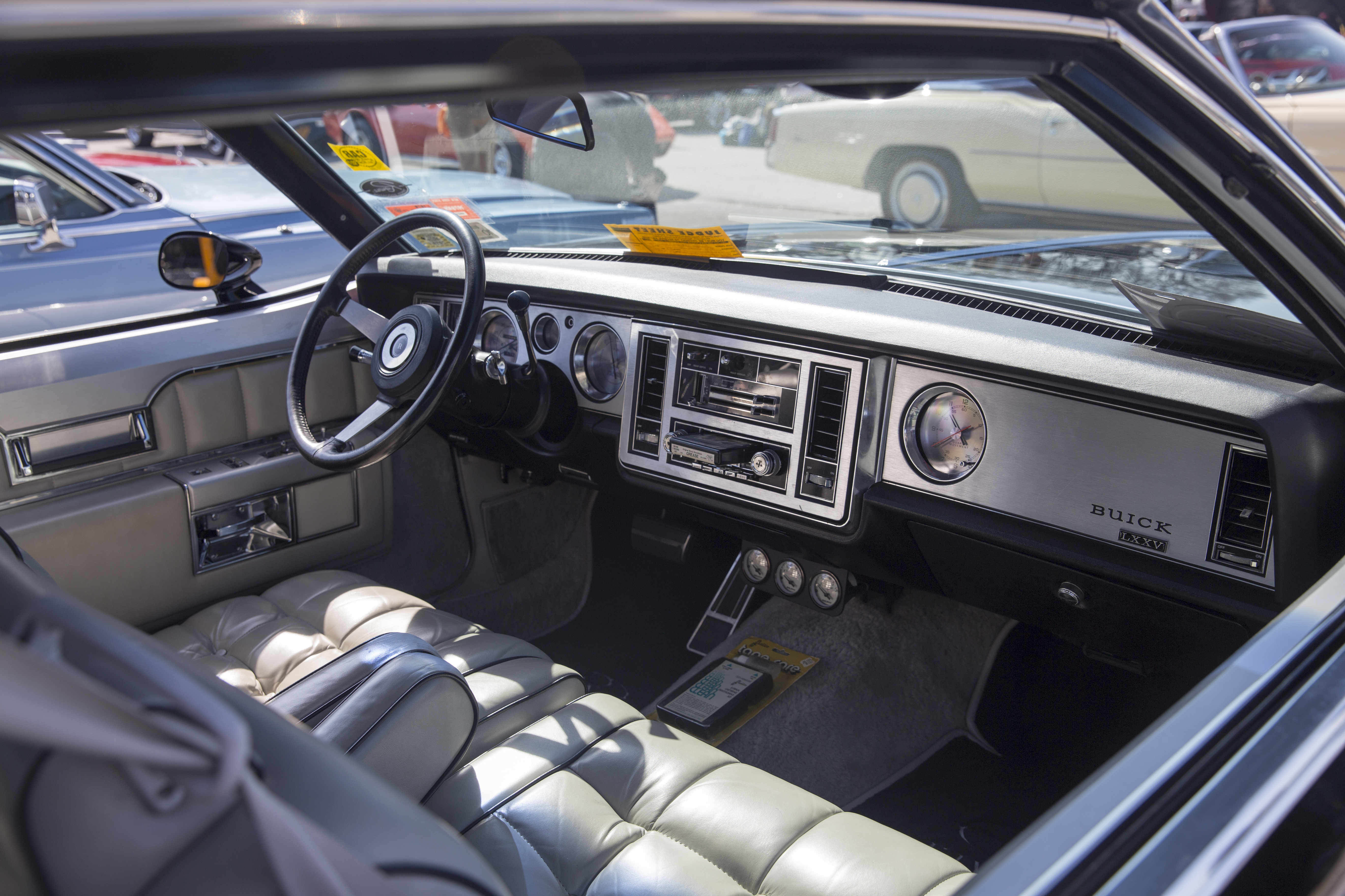 The interior of a 1978 Buick Riviera LXXV at the Belmont Race Track. This was a very period-oriented special edition, celebrating Buick's 75th anniversary.